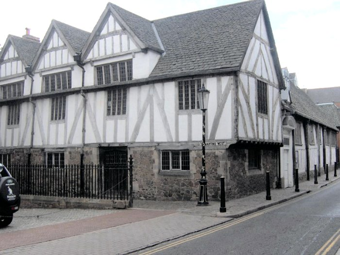 The Guildhall, Leicester by Dawkeye.